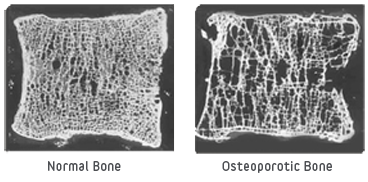 Two slides comparing the vertebrae of a healthy 37 year old male with a 75 year old female suffering from osteoporosis.